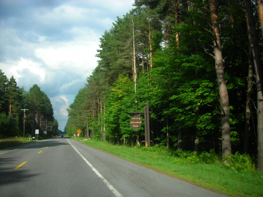 New York State Route 365 northbound in Remsen, New York entering the Adirondack Park.